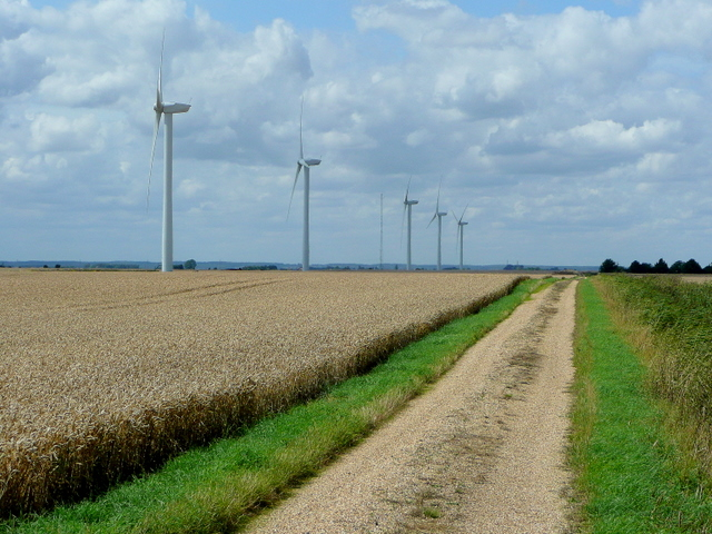 Drove on Deeping Fen A good clear view of some of the wind turbines of Worth's Farm. With my thanks to the farmer for permission to gain access to this position.